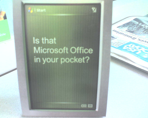 Treo 700 – the first Palm device to run on Windows Mobile